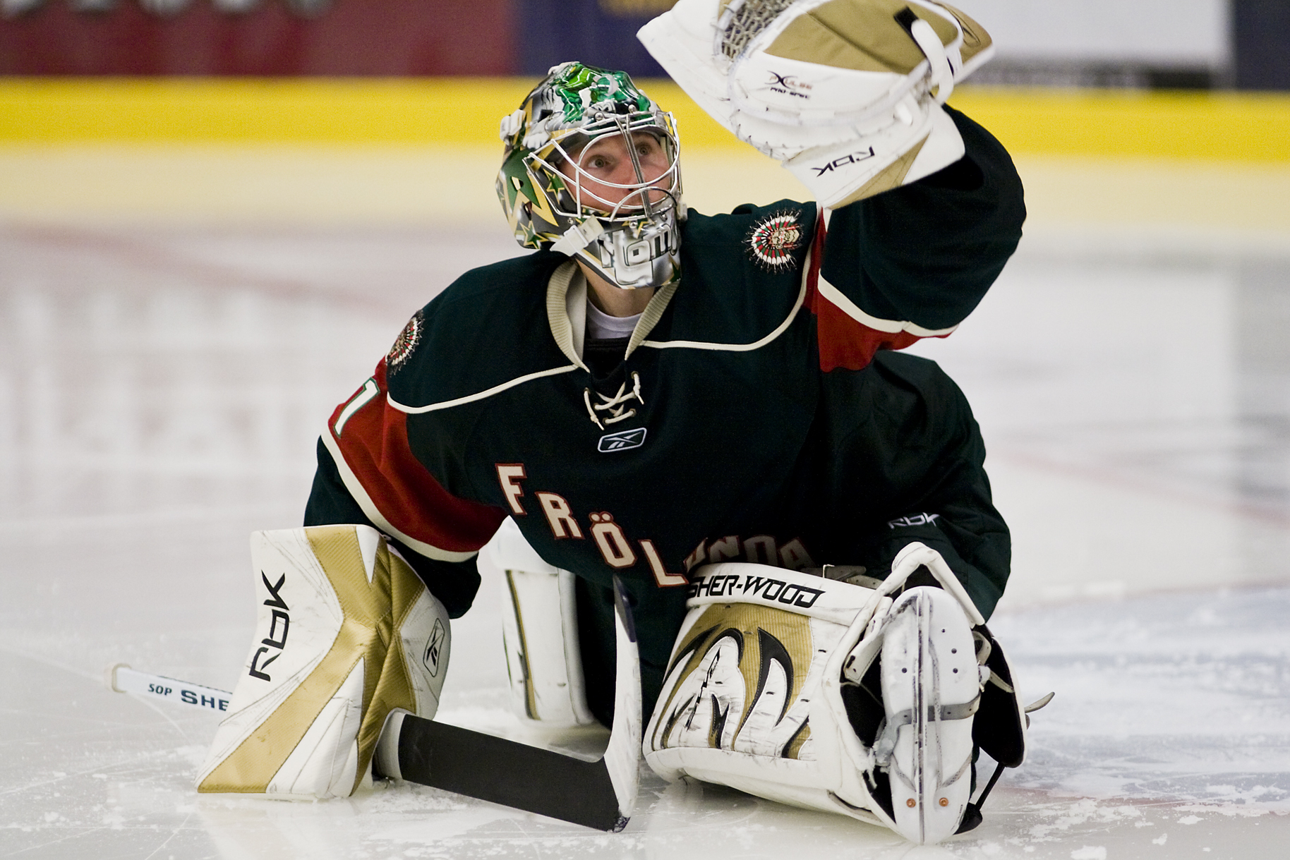 1=Johan Holmqvist of Frölunda HC during a pre-season game against Tappara in Borås Ishall, Borås, on August 22, 2008.